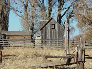 Buckaroo bunkhouse at the historic Sod House Ranch in Harney County, Oregon; the ranch is now part of the Malheur National Wildlife Refuge